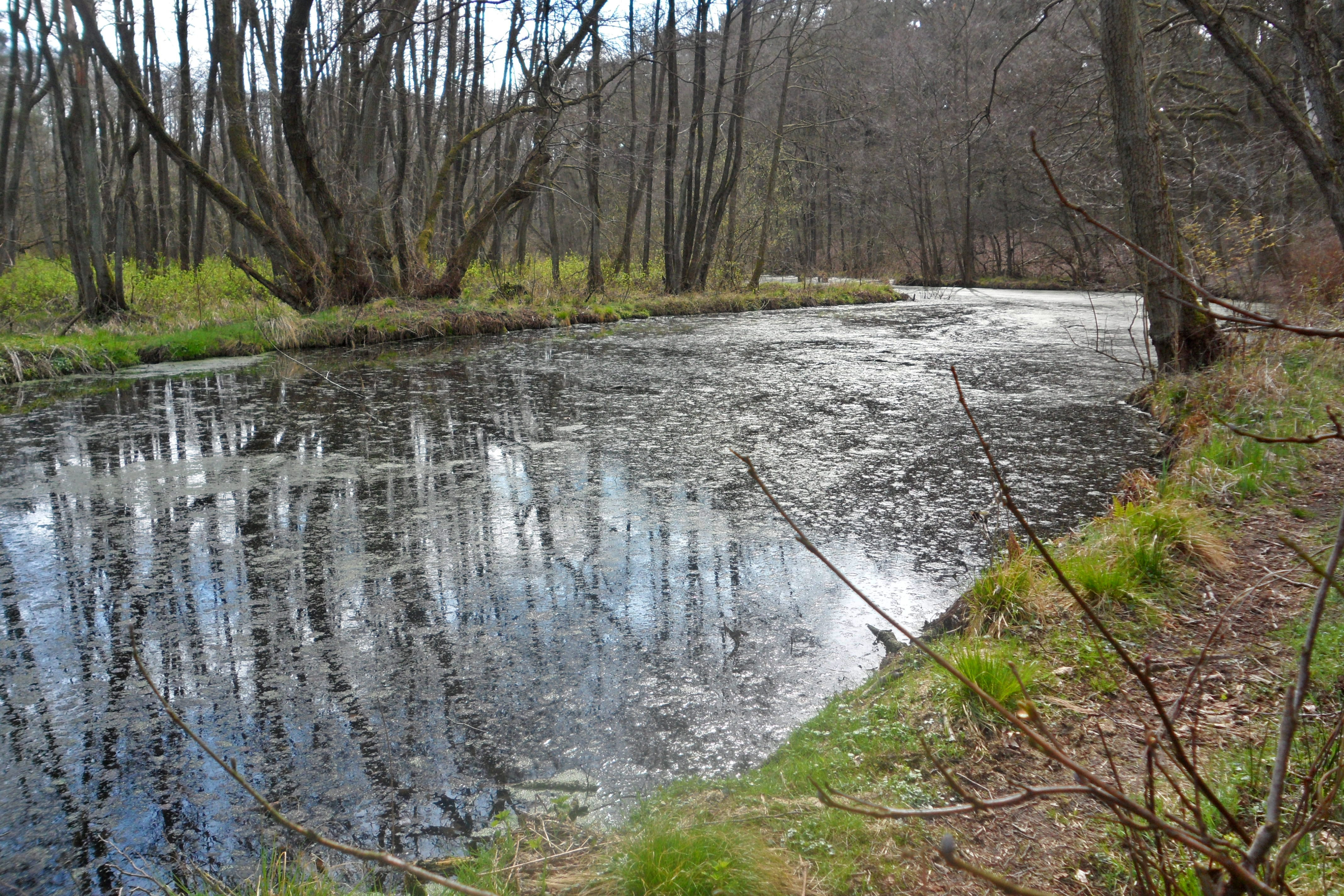 River Este between Buxtehude and Moisburg